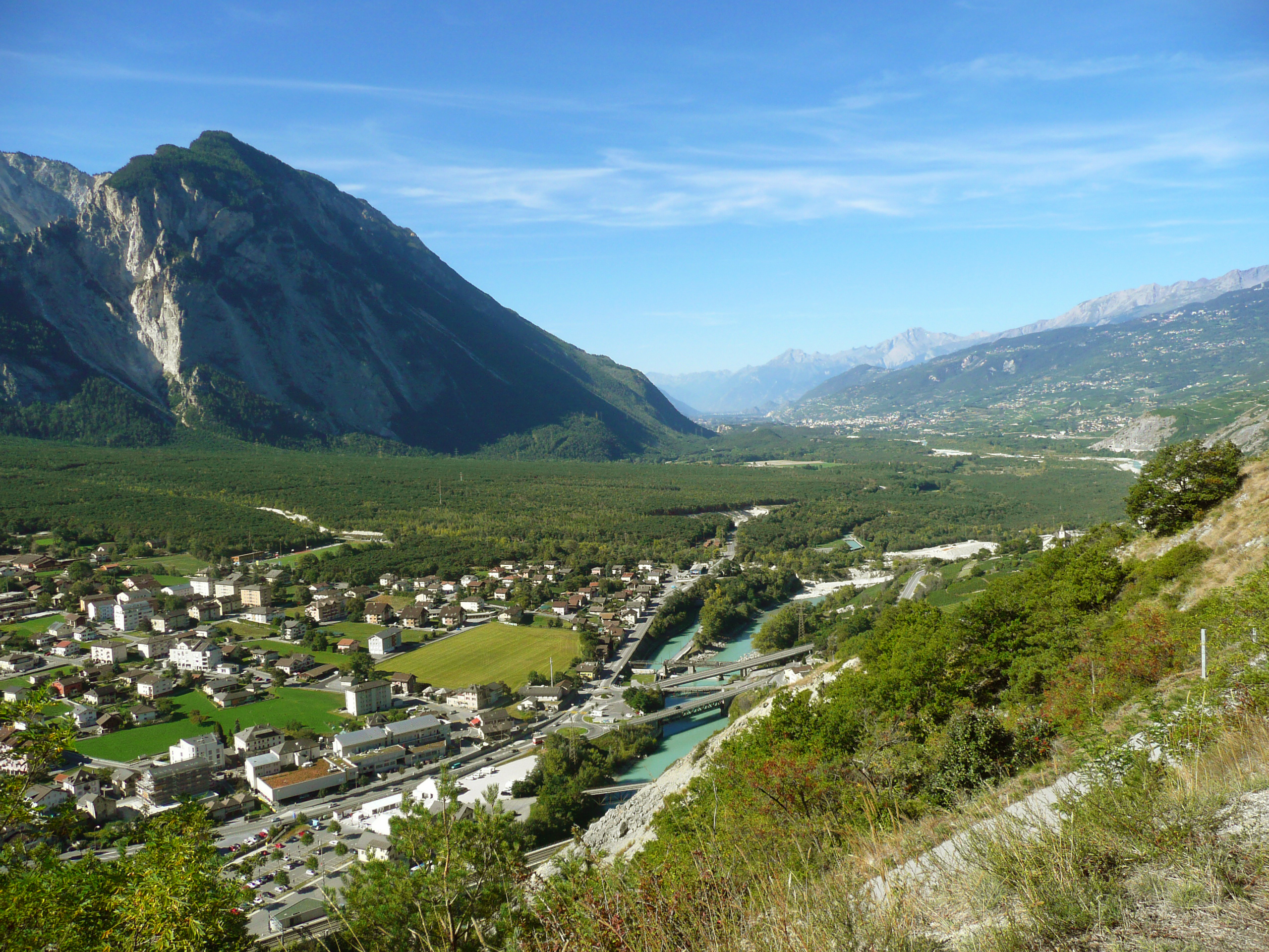 The Rhone valley at LOECHE, with the Illgraben alluvial fan and the Finges forest, Valais, Switzerland.